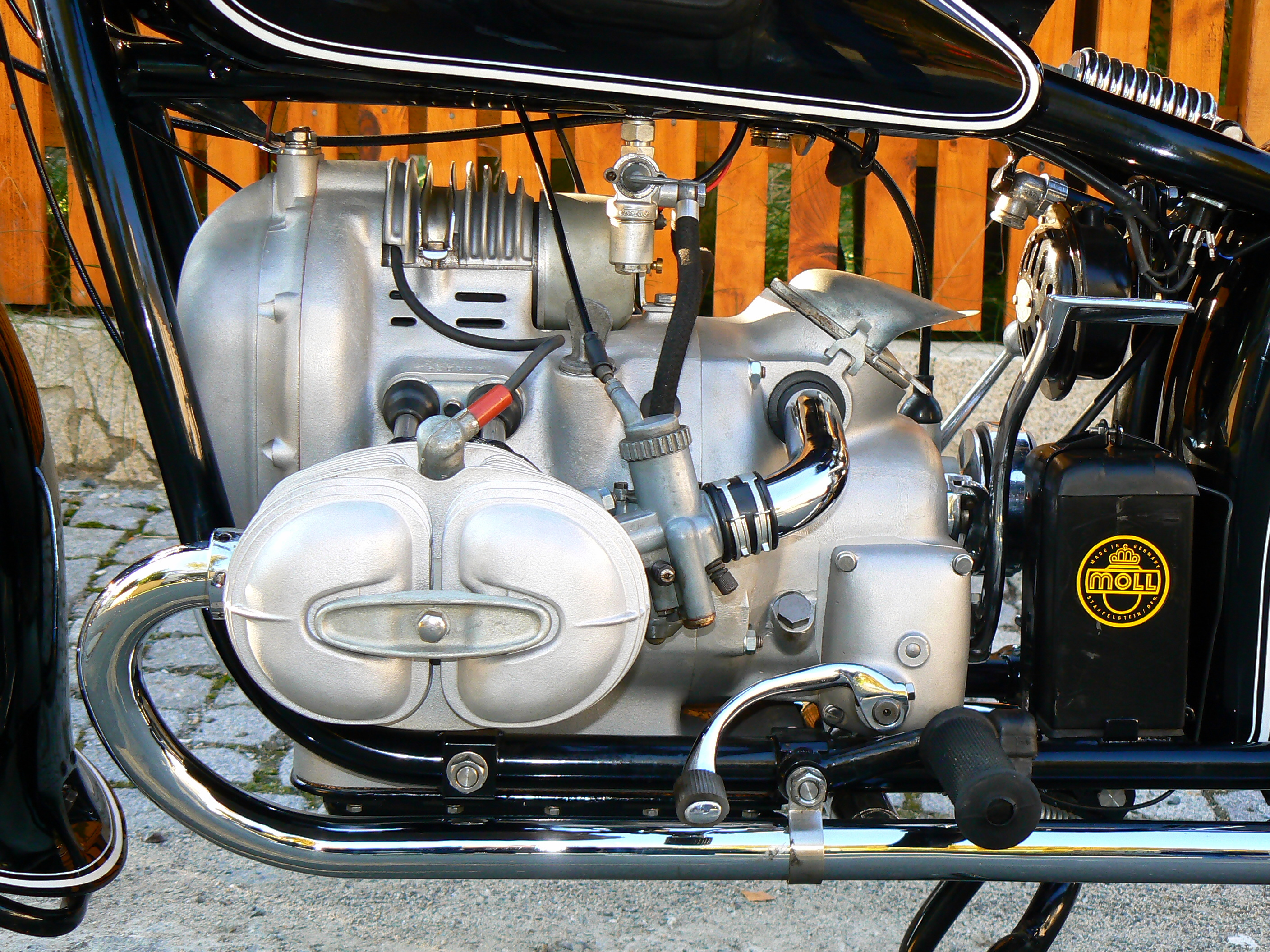 BMW R 51/2, 1950, Motor